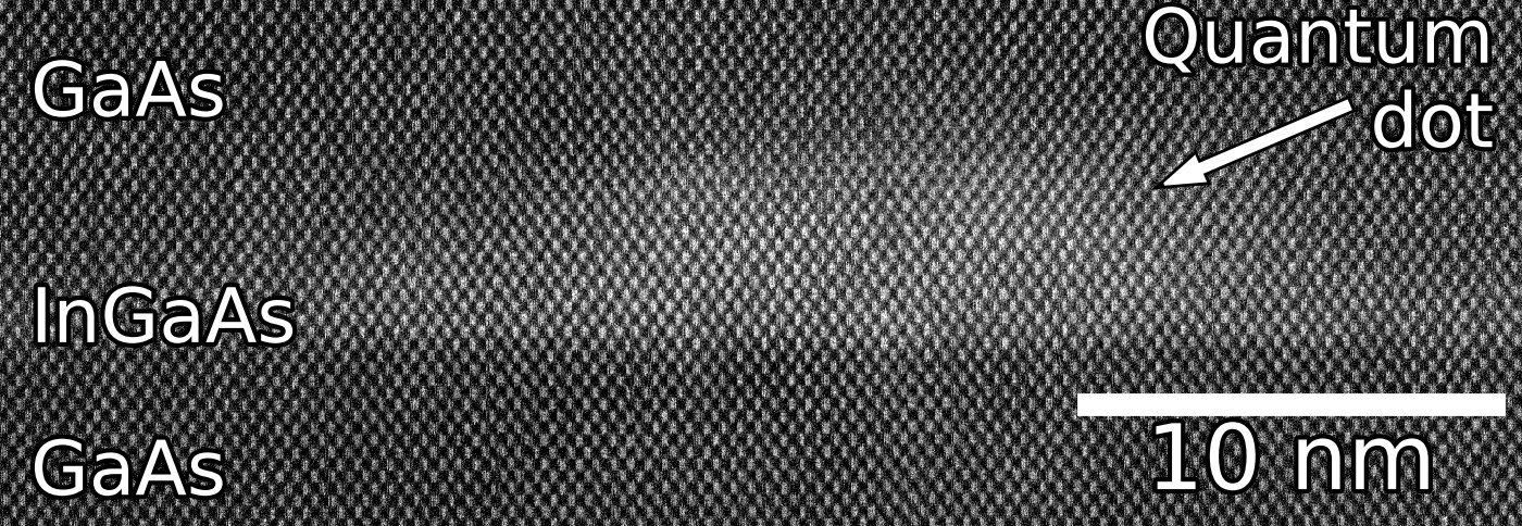 An atomic resolution image of a indium gallium arsenide (InGaAs) quantum dot embedded within gallium arsenide (GaAs). Image acquired using scanning transmission electron microscopy.